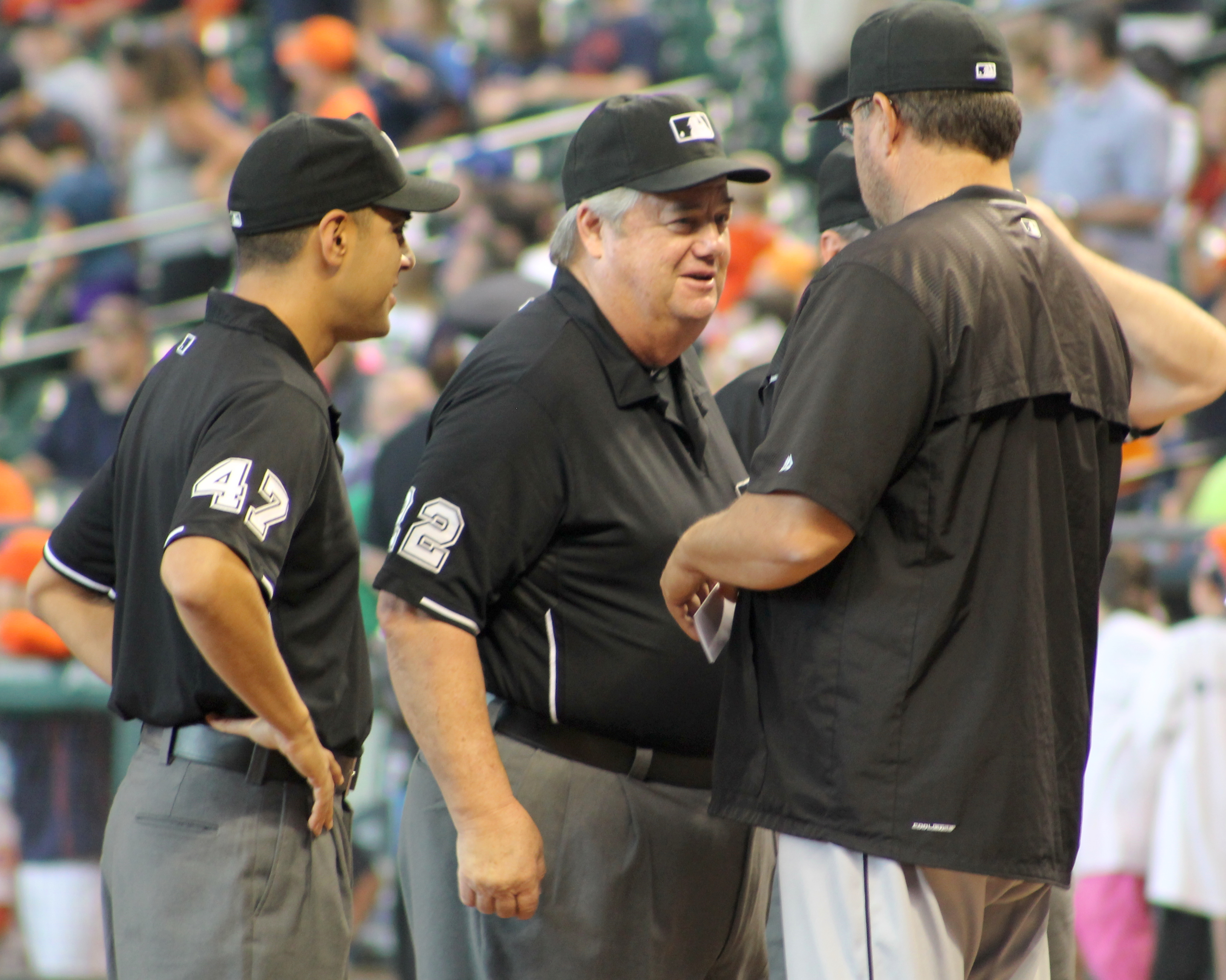 Professional baseball umpires Joe West (center) and Gabe Morales (left) meet with Chicago White Sox coaches before a game at Minute Maid Park in May 2015.